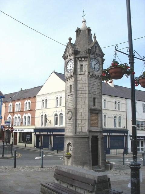 The Clock Tower, Bulkeley Square, Llangefni This clock was erected to celebrate the life of Lt. George Pritchard-Rayner of Tre-Ysgawen SH4581 and of the 4th Coy,9 Bn, Imperial Yeomanry, who died in the Boer War at the age of 29.